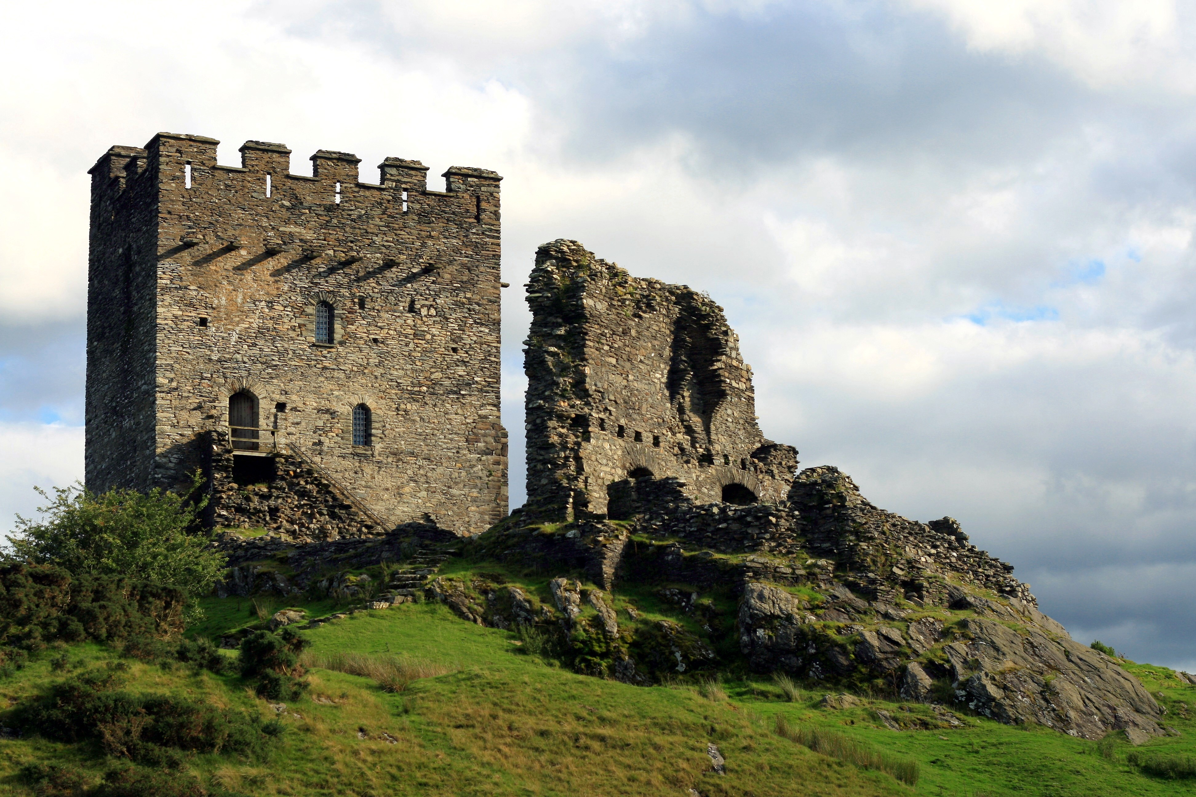 Dolwyddelan Castle is a fortress near Conwy, Wales.. Dolwyddelan castle was built by Llywelyn; the old castle nearby may have been his birthplace.